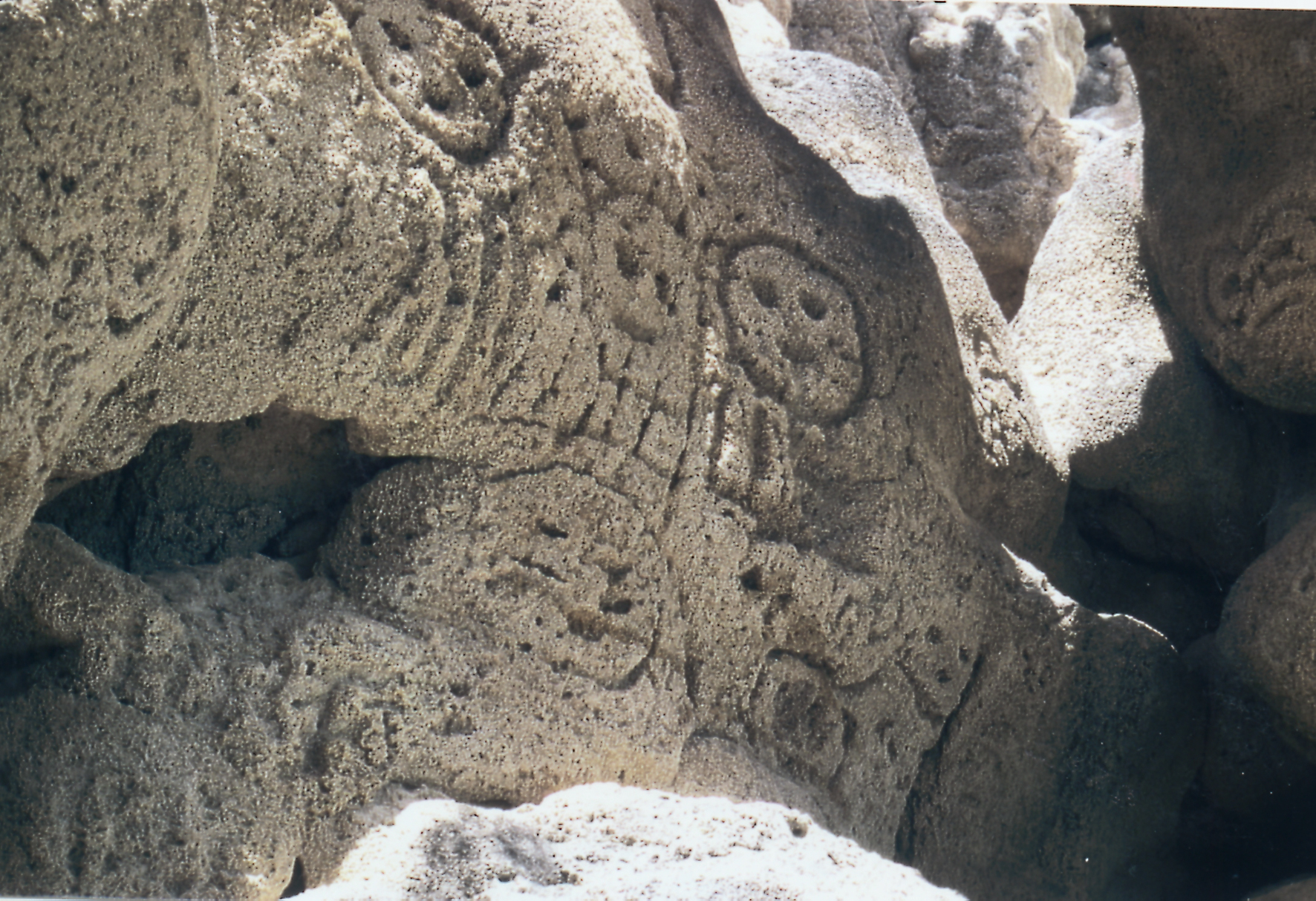 Petroglyphen der Taínos (genannt "Las Caritas", die Gesichterchen), am Lago Enriquillo, Dominikanische Republik Petroglyphs of the Taíno (called "Las Caritas", little faces), near Lago Enriquillo, Dominican Republic Own foto, taken in 2001